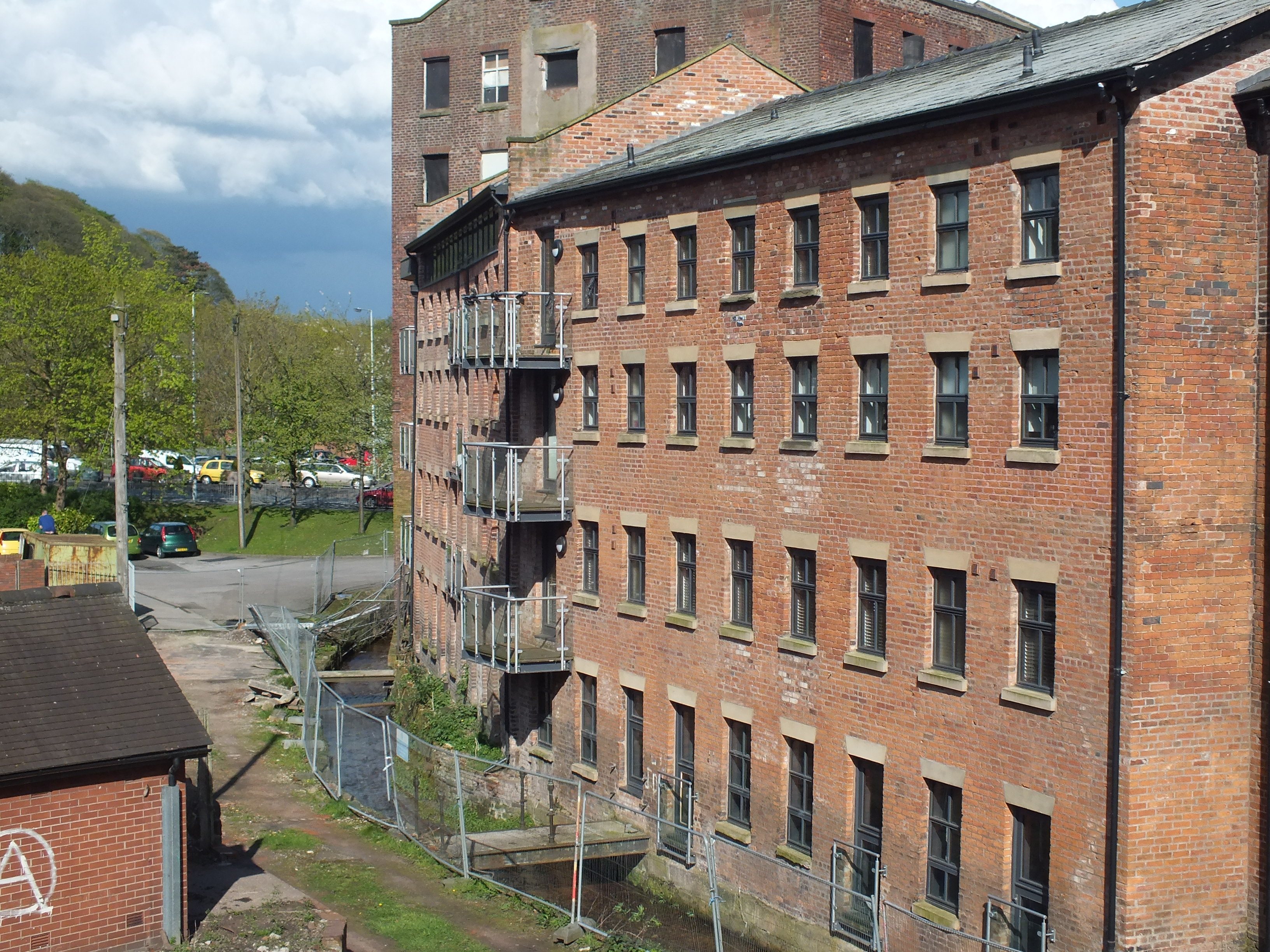 Congleton- Bear Town, East Cheshire. Many textile mills were built here for silk and cotton, powered by the water of the River Dane, and later by steam.